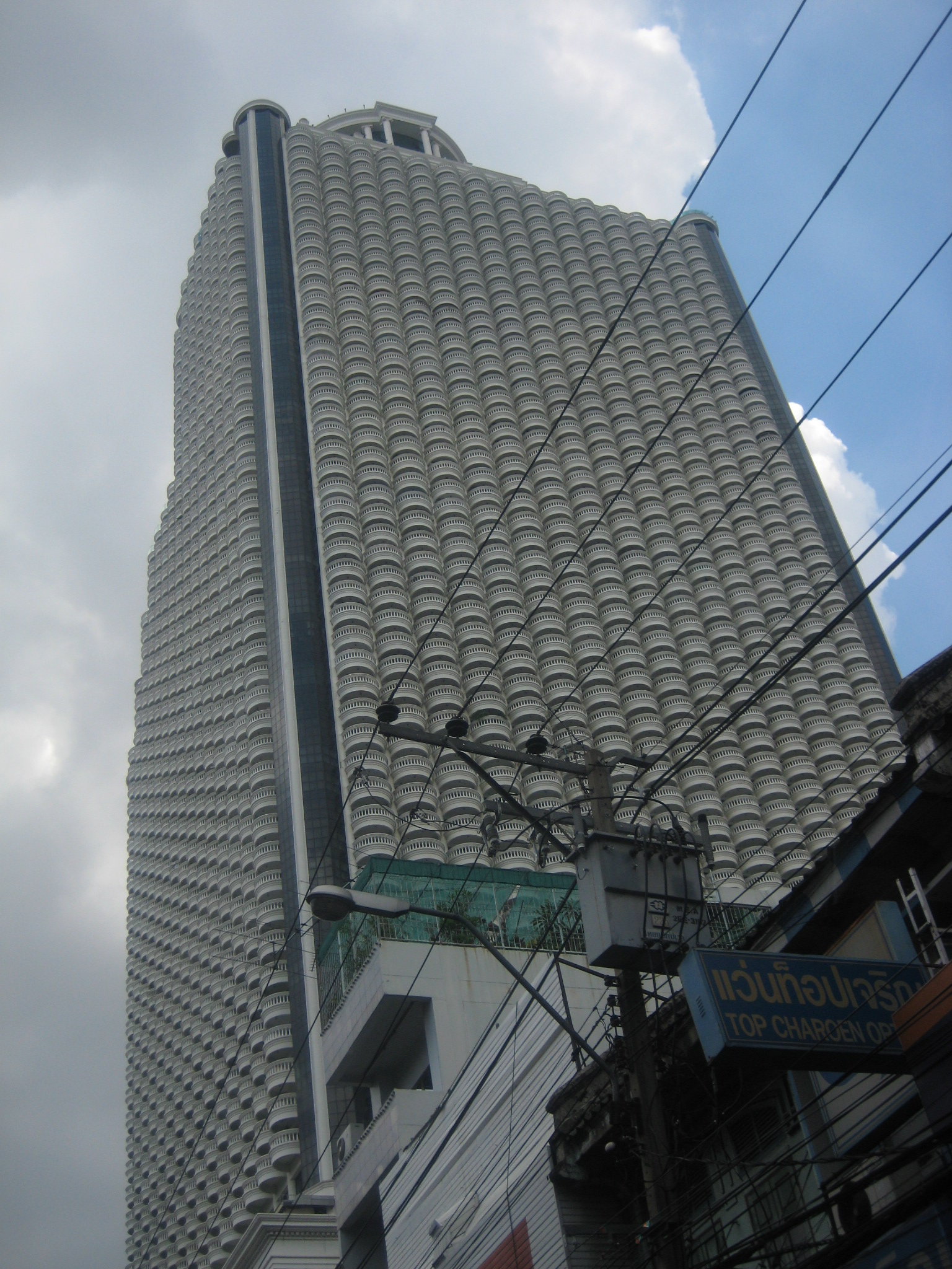 State Tower (สเตท ทาวเวอร์), Bangkok.